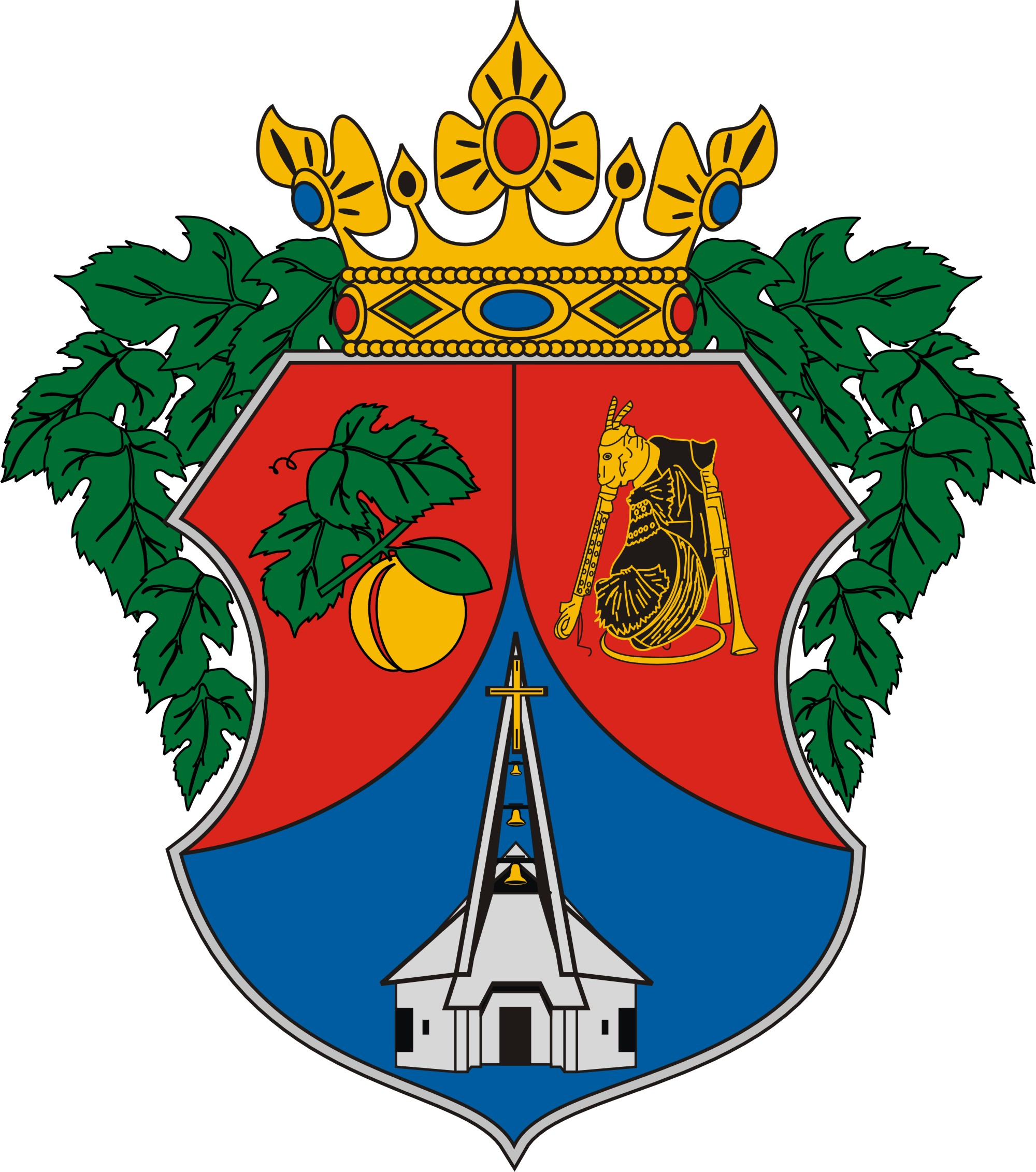 Coat of arms of Domaszék, Hungary